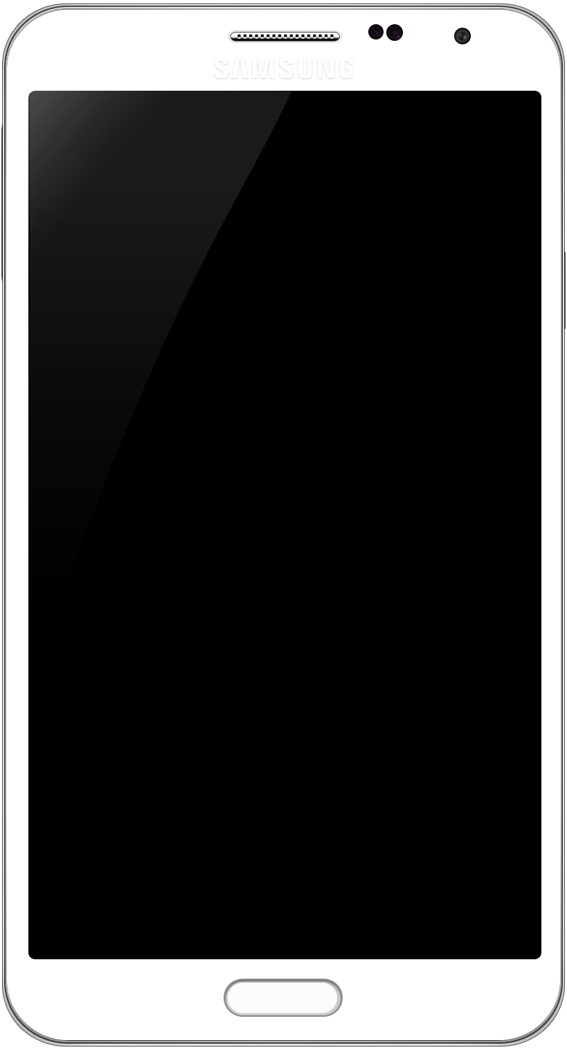 Samsung Galaxy Note 3 Neo render